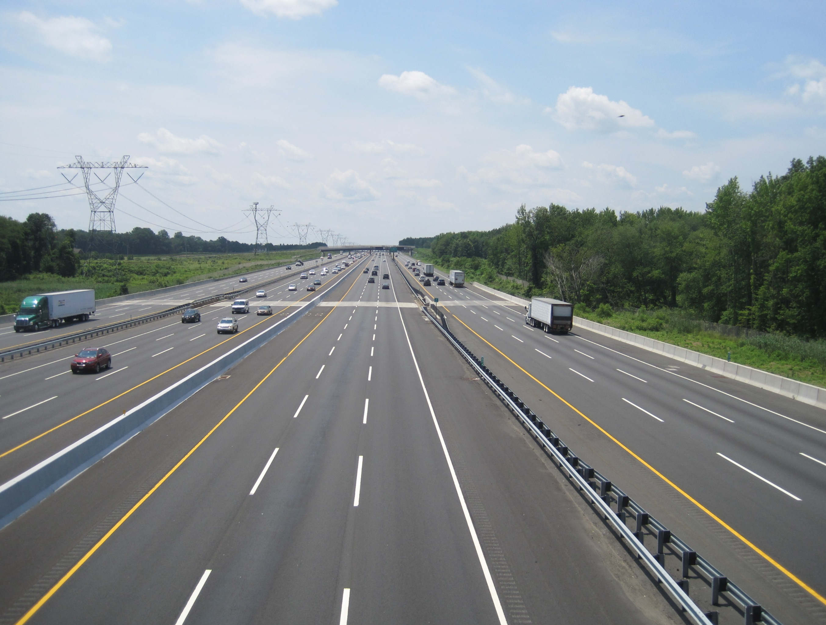 Photo of the completed widening of the New Jersey Turnpike from Exits 6 to 9. This shot is taken from the Windsor Road bridge looking south in Robbinsville Township, New Jersey. This is part of my series of photos documenting progress on the widening of the New Jersey Turnpike between interchanges 6 and 9, though the four roadways had been opened since November 2014.